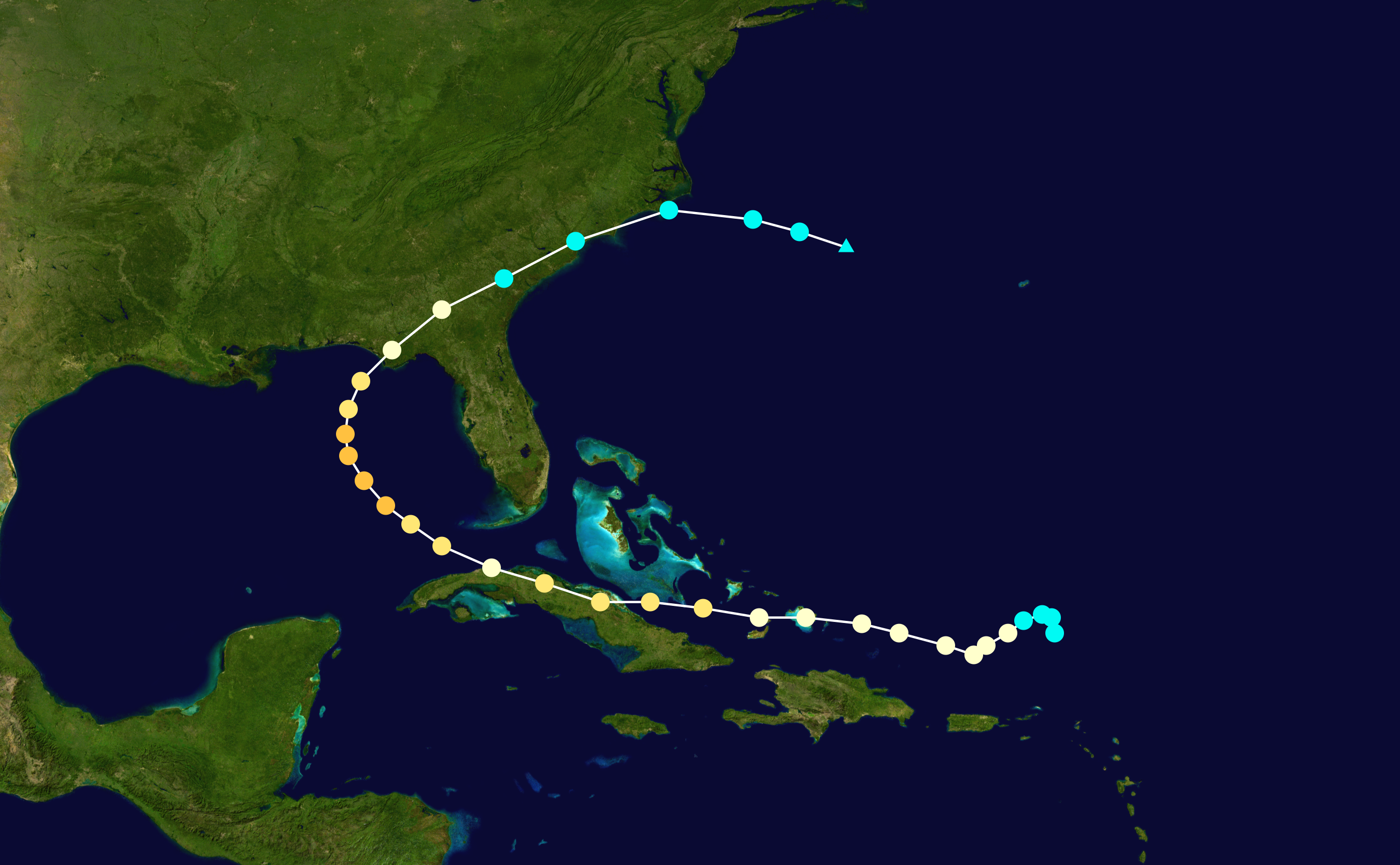 Hurricane Kate (1985) track. Uses the color scheme from the Saffir-Simpson Hurricane Scale.